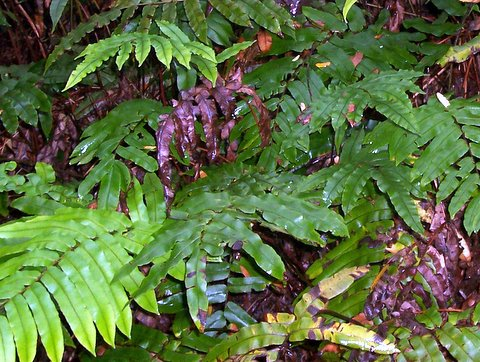 Hard Water Fern at Pinkwood Creek, Deua National Park